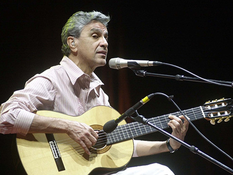 Caetano Veloso at Umbria Jazz (Perugia - Italy).